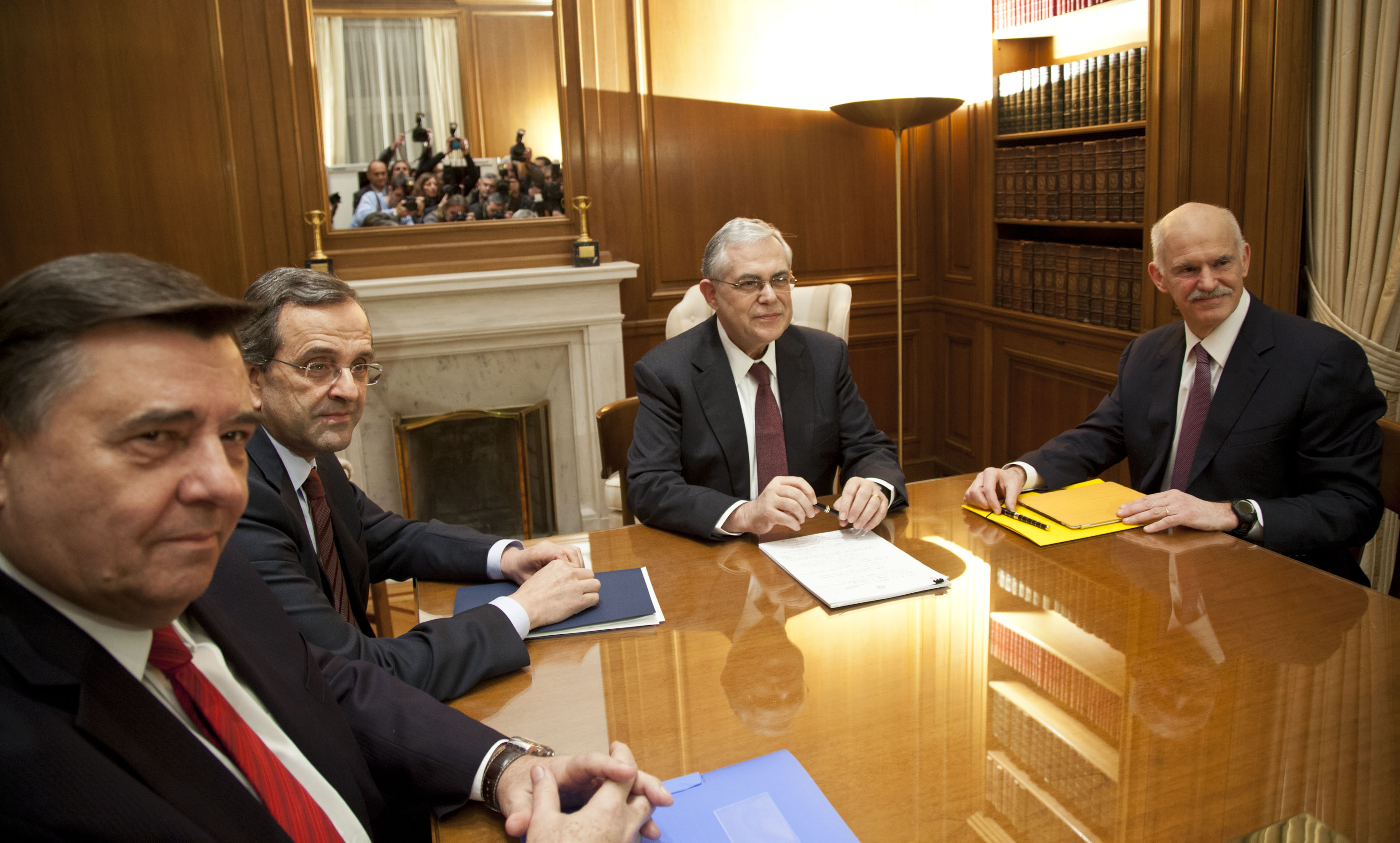 Greek Prime Minister Lucas Papademos meeting with government coalition party leaders. From left to right: Georgios Karatzaferis, Antonis Samaras, Lucas Papademos, George Papandreou.